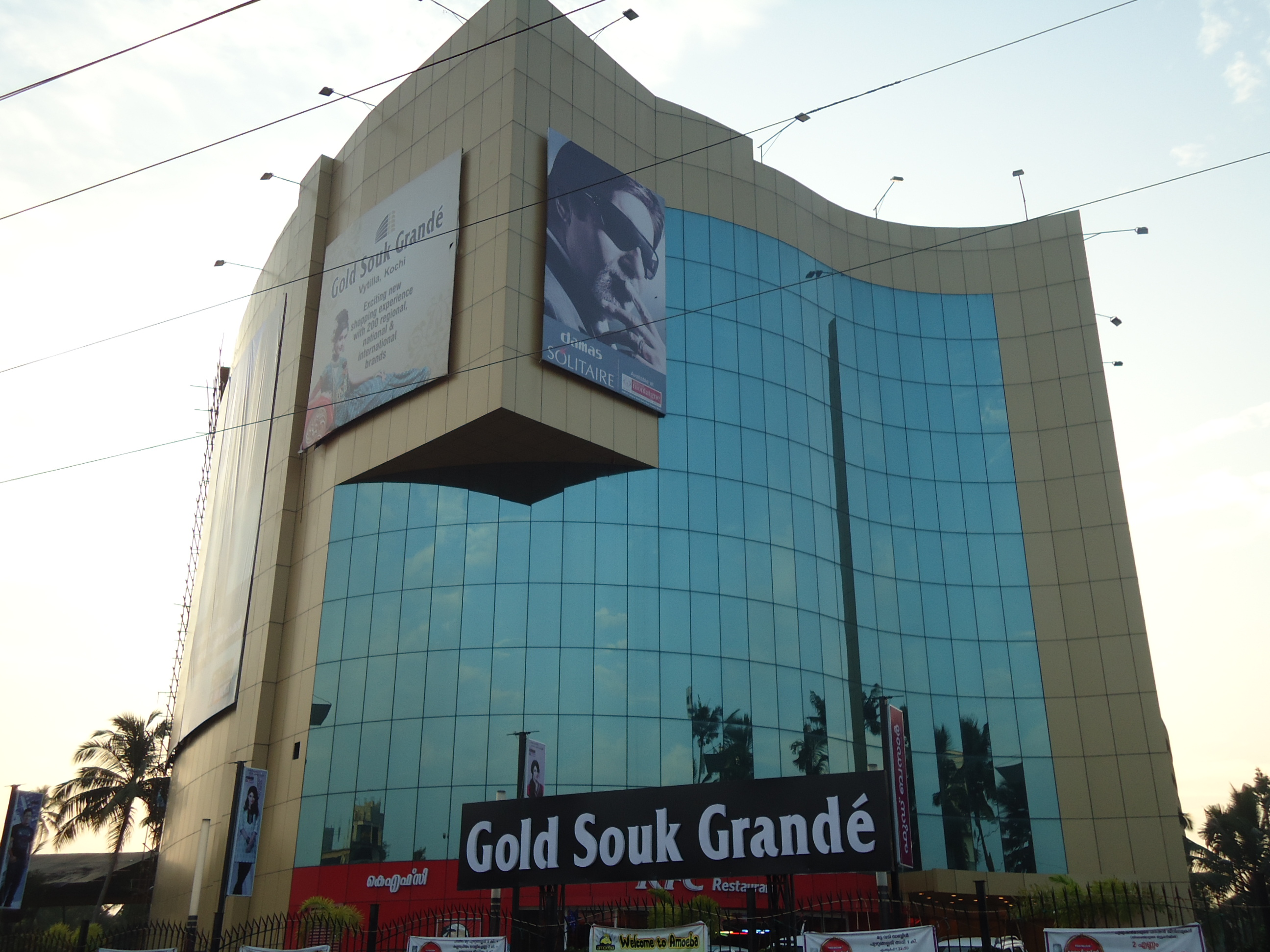 Gold souk grande Front